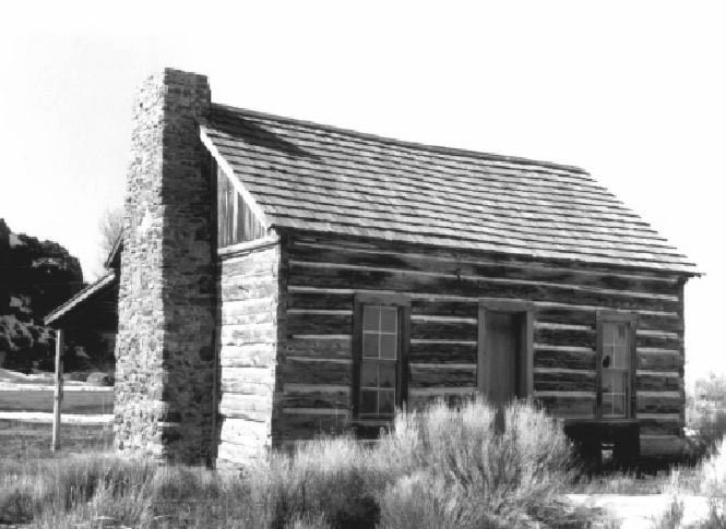 Historic log cabin on Double O Ranch in Harney County, Oregon; listed on the National Register of Historic Places in 1982; now part of the Malheur National Wildlife Refuge